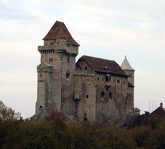 Castle Liechtenstein in Austria. This castle gave its name to the royal family of Liechtenstein.